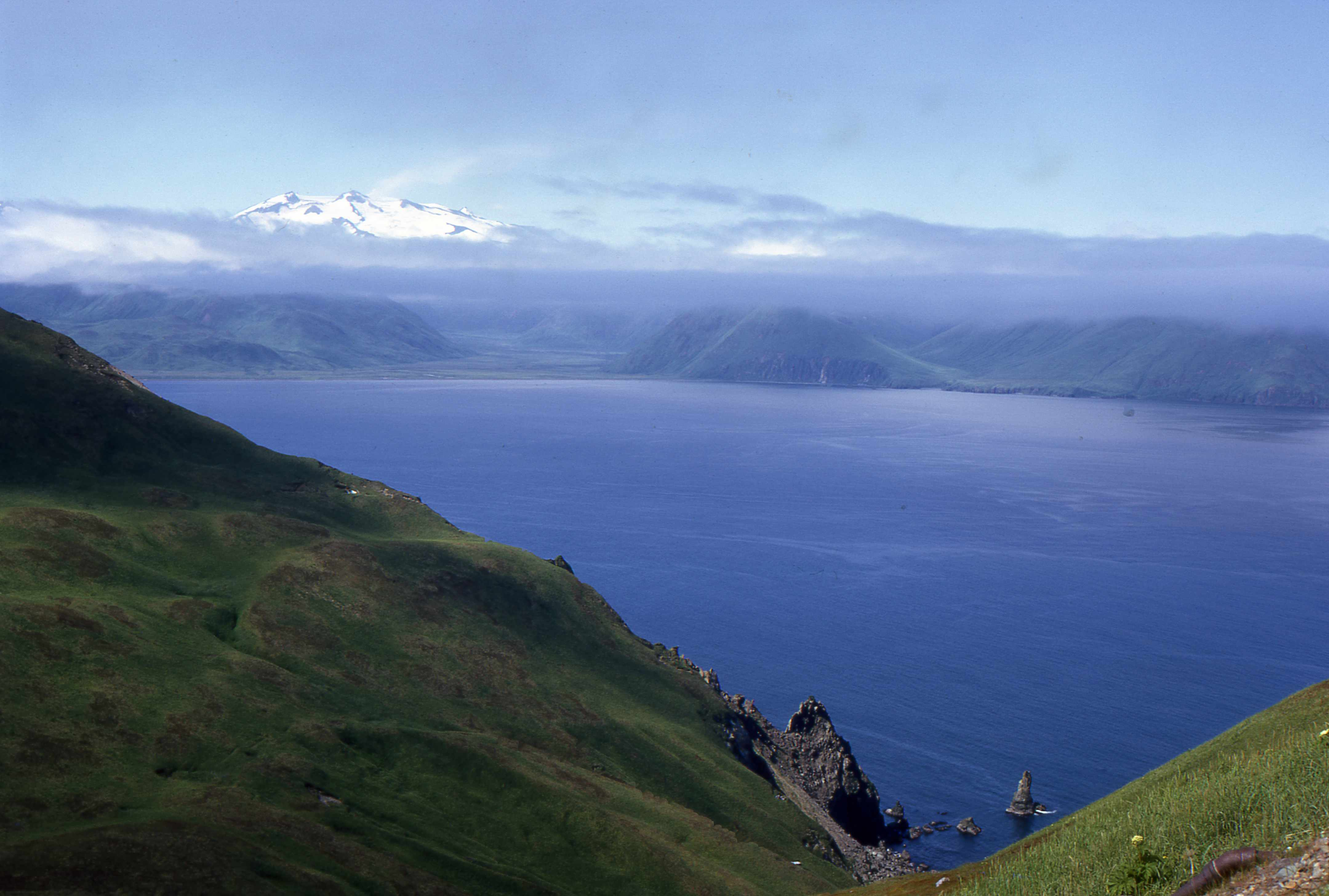 United States of America United States of America, Alaska, Unalaska Island. The Broad Bay and the Makushin Volcano partly hidden by low clouds and the Makushin valley. The picture is taken from Ballyhoo Mountain on Amaknak Island.